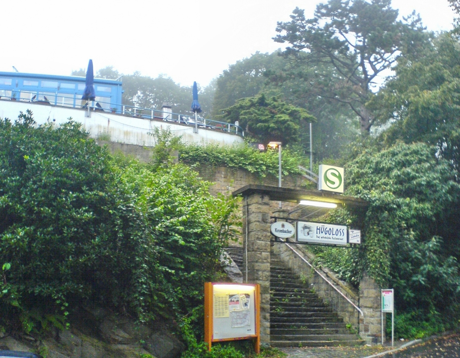 Bahnhof Essen-Hügel This panoramic image was created with Autostitch. Stitched images may differ from reality.